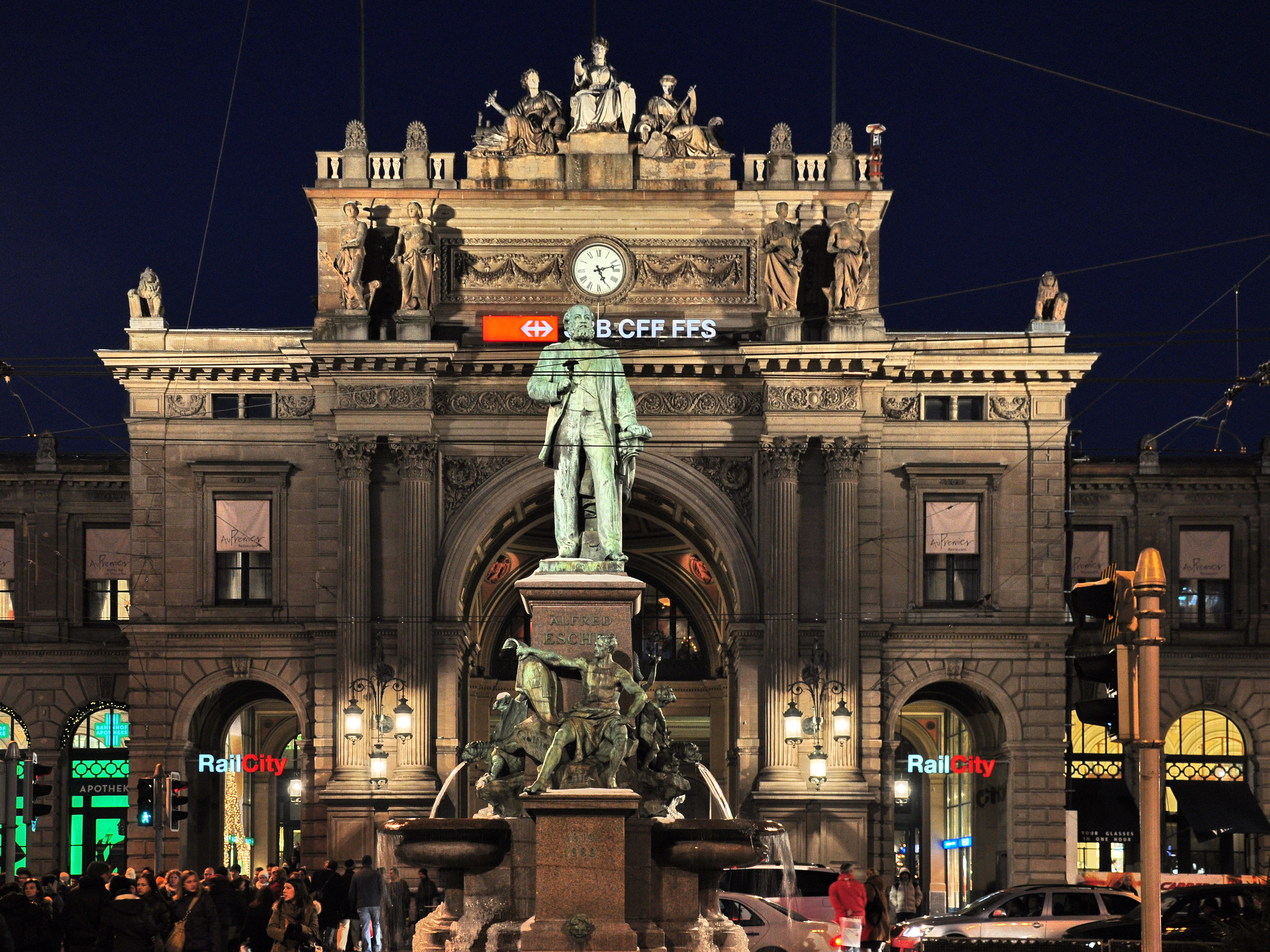 Alfred Escher monumental fountain, sculpted by Richard Kissling, on Bahnhofplatz situated at Hauptbahnhof in Zürich (Switzerland)